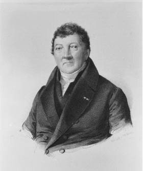 Marc Cornelis Willem baron du Tour van Bellinchave (1764-1850)